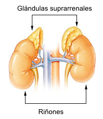 Adrenal gland